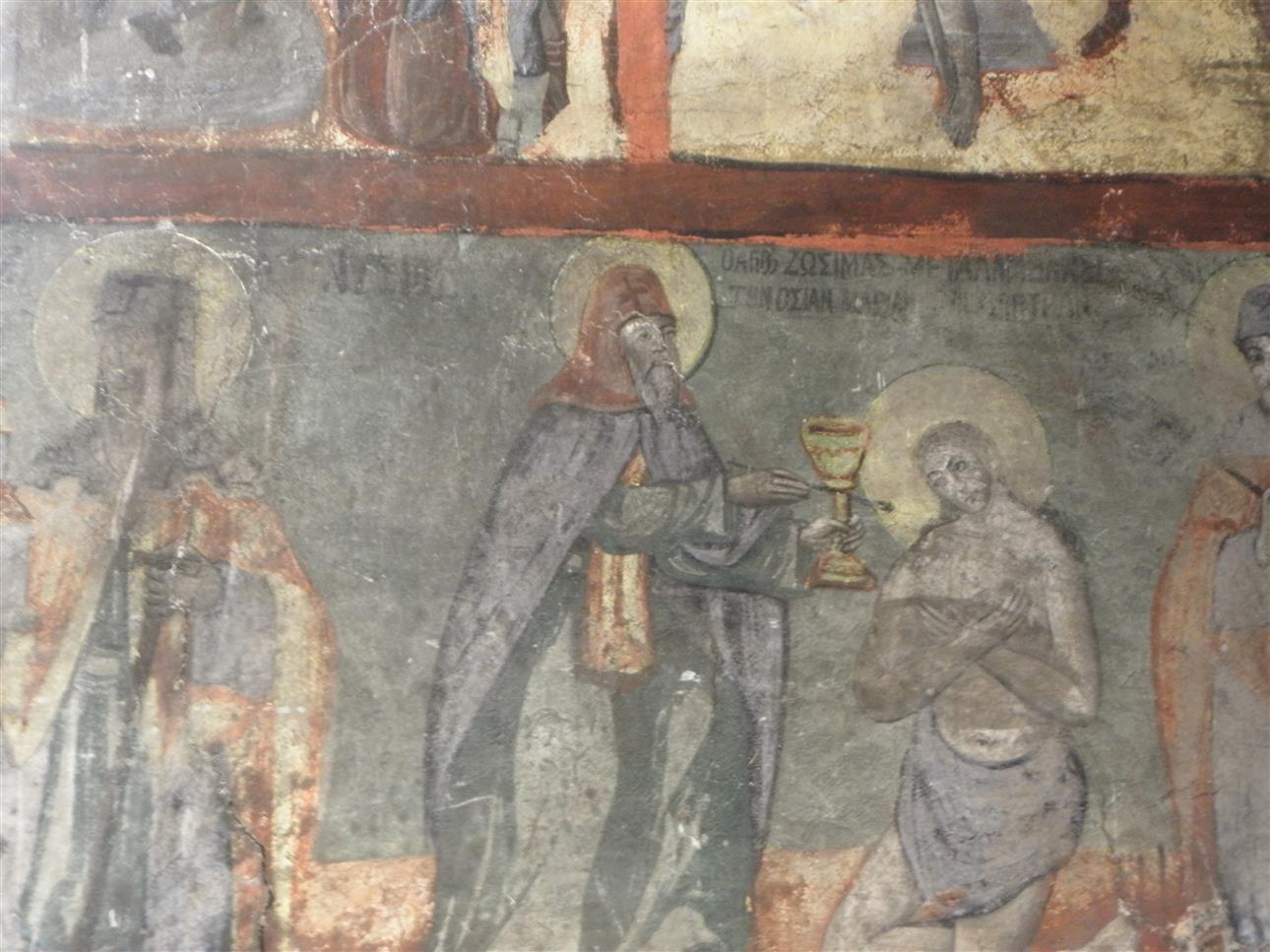 Painting at st. John church, Ano Loutraki, Almopia, Greece